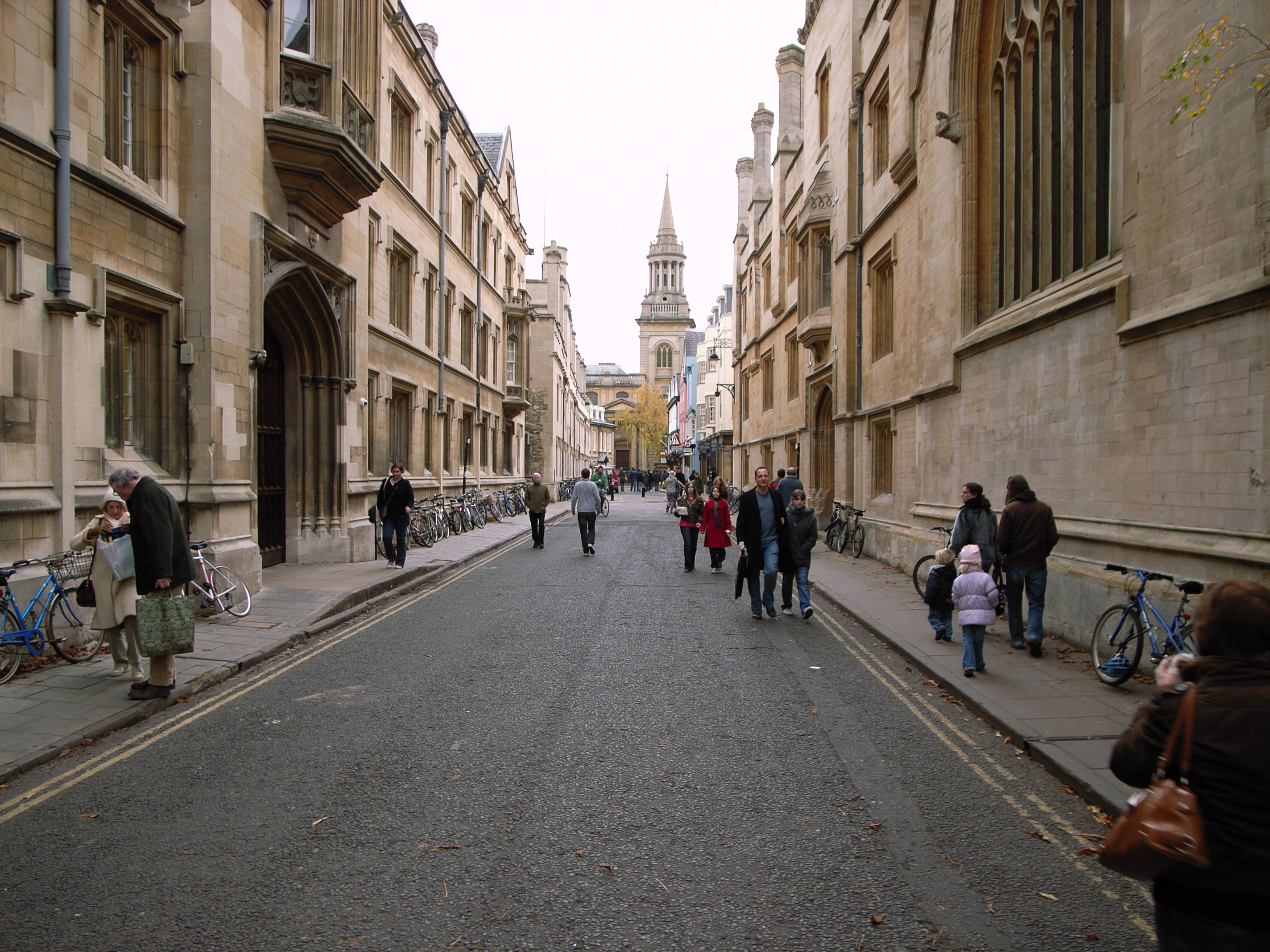 View along Turl Street, Oxford. Exeter College to the left, Jesus College to the right, with All Saints' Church in the distance. A similar view of Turl Street can be seen in the Endeavour episode "Neverland".